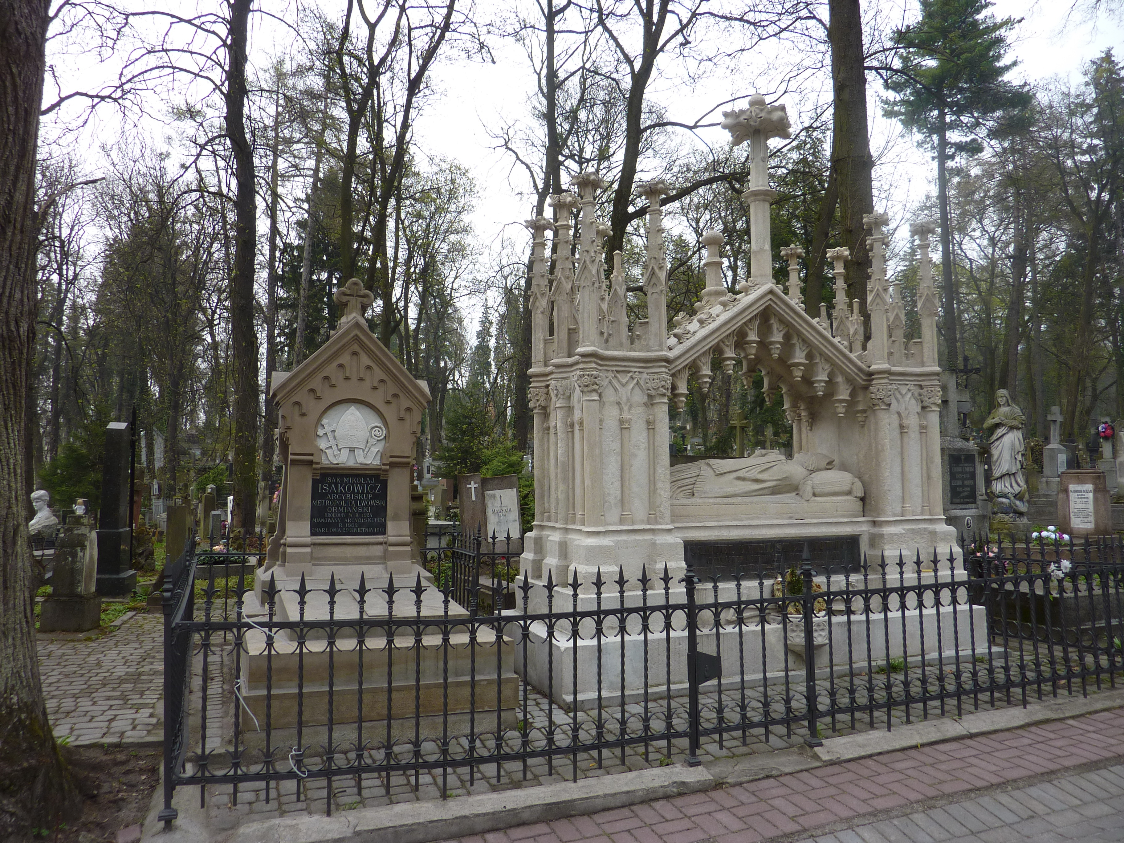 Grave of Armenian Biskops on Lychakiv Cemetery